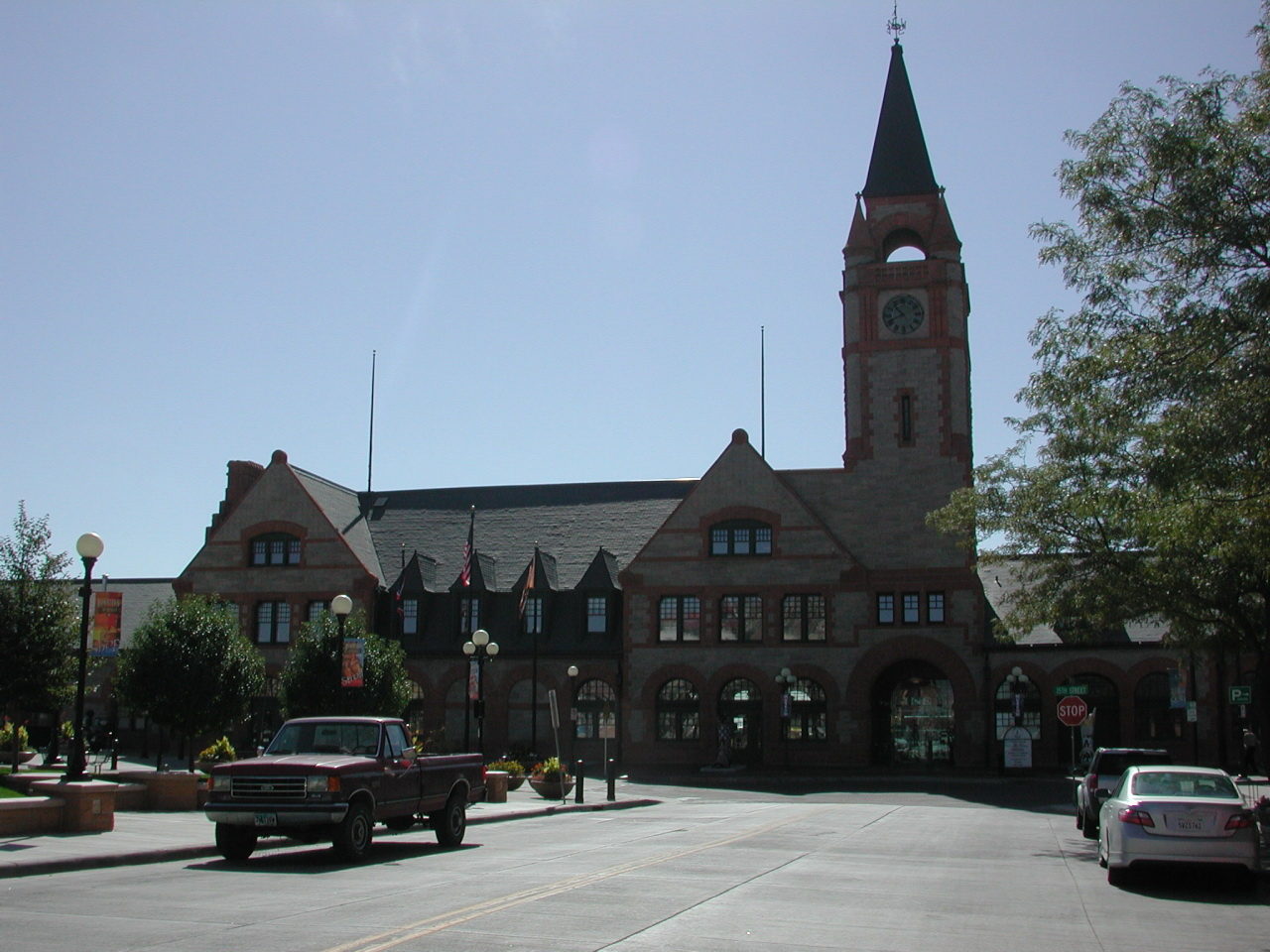 The Cheyenne Depot Museum describes the establishment of Cheyenne and the history of this beautifully restored building. Built in 1886-1887, the Union Pacific Depot is the last of the grand 19th-century depot remaining on the transcontinental railroad. It was awarded National Historic Landmark from two principal areas, transportation and architecture.